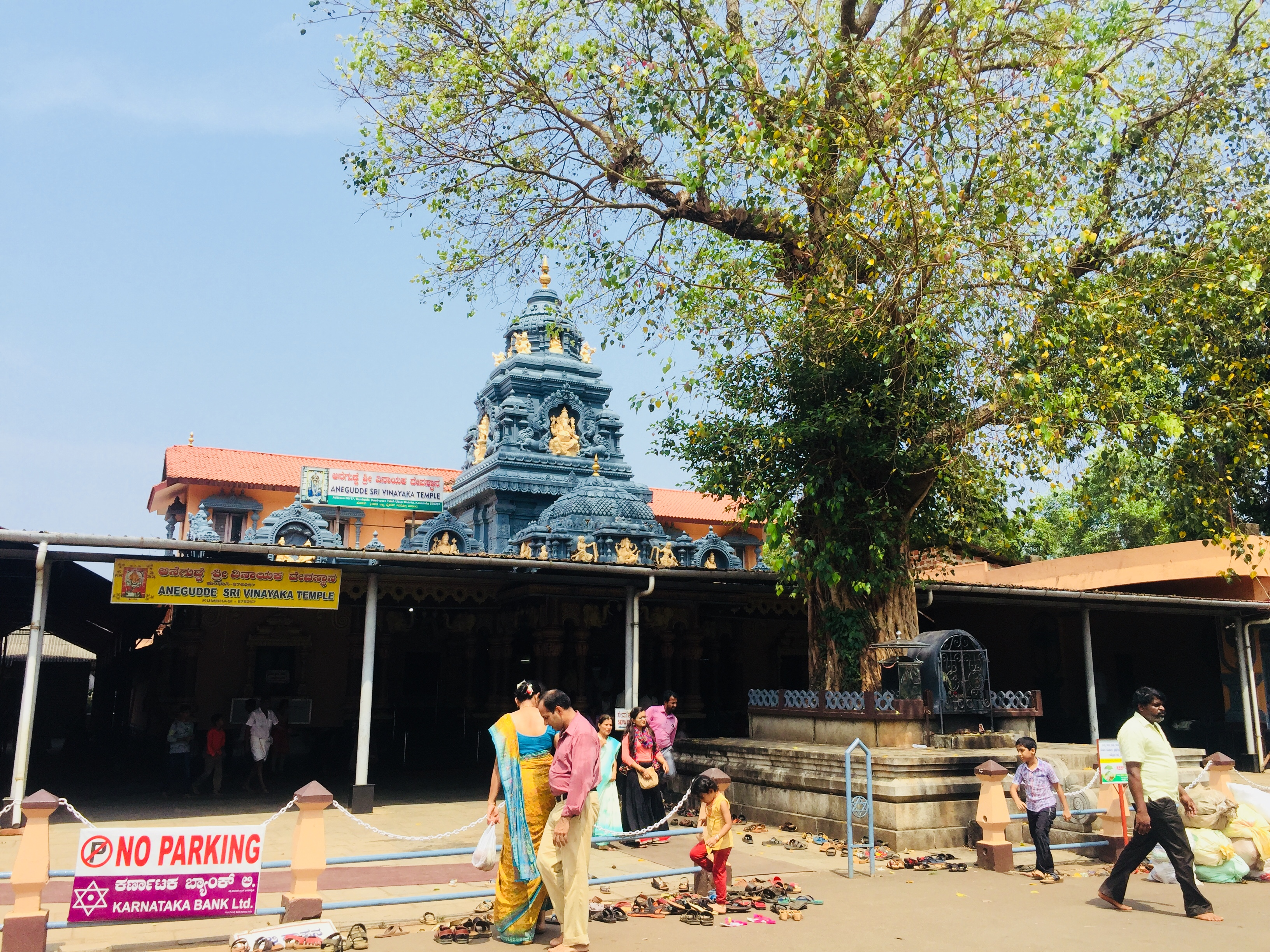 The place of Hindu deity elephant god who serves hundred of people with tasty food